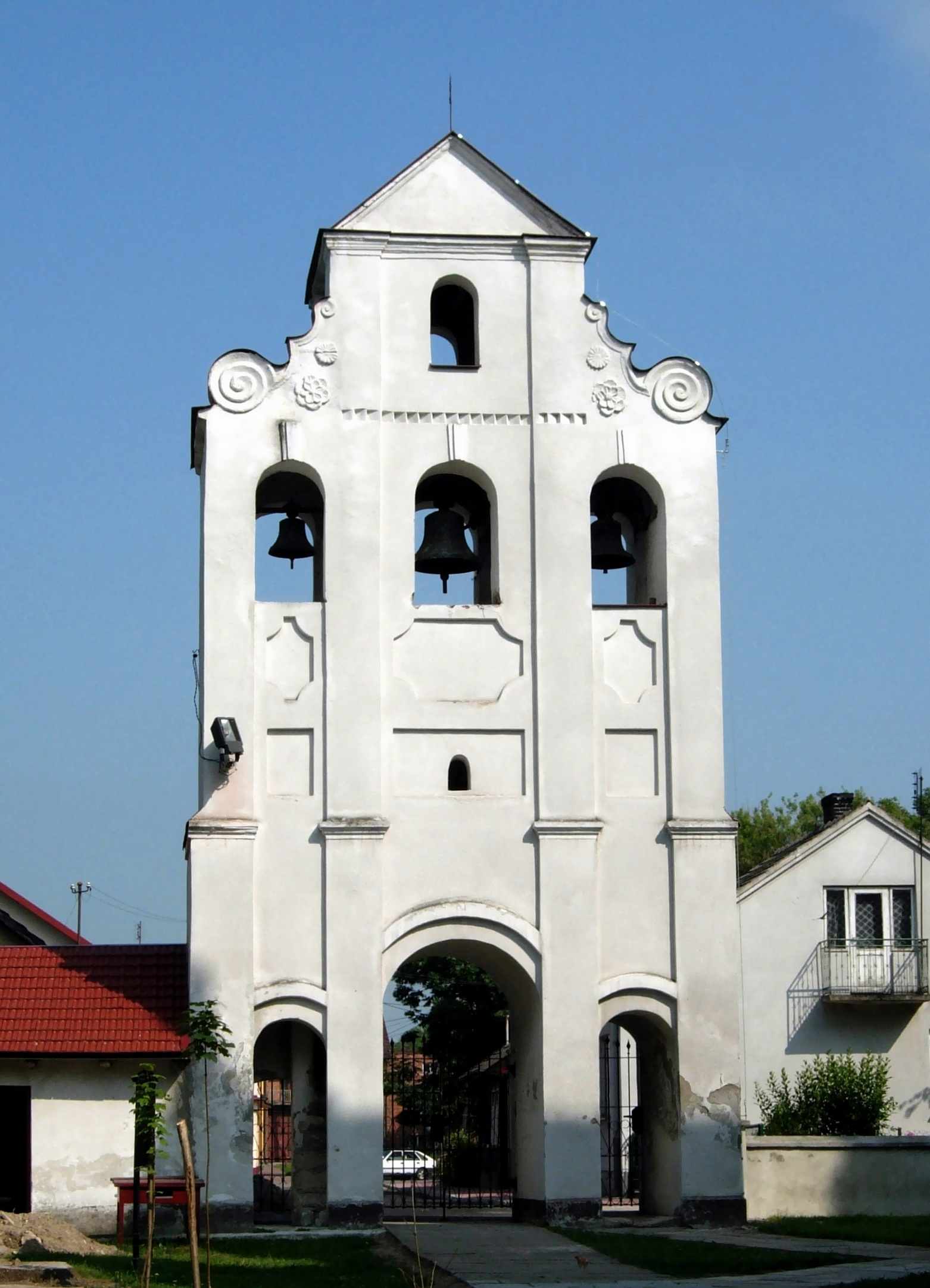 The bell tower of Saint James Church in Opatowiec, Poland